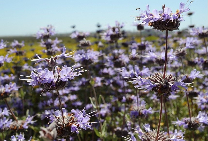 Cleveland sage (Salvia clevelandii) in bloom, Tijuana Slough National Wildlife Refuge, CA, USA